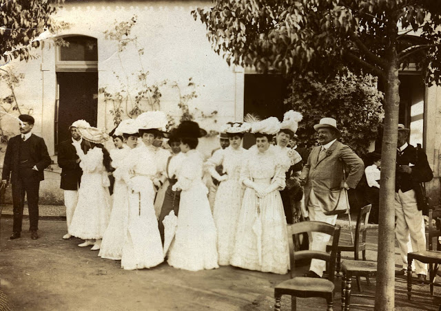 King Carlos with ladies at the Cascais Sporting Club in 1905. Photo: Joshua Benoliel